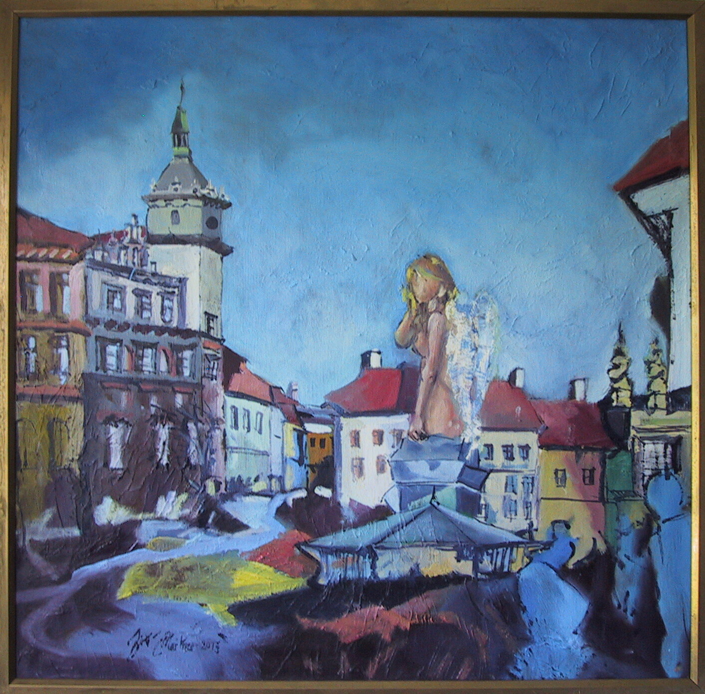 Jiří Meitner: Prachatice slightly angelic I, 75x75 cm, signed, framed, 2013